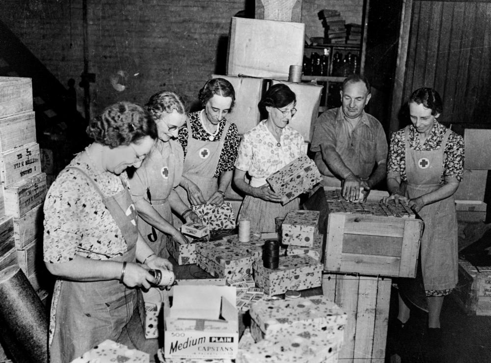 Red Cross workers packing Christmas presents for the Fighting Forces during World War II, October 1942. Red Cross workers packing hundreds of thousands of Red Cross Christmas boxes to be sent to the men of the Fighting Forces, Monday 26 October 1942. Each box contained a one and a half pound packet of biscuits, two khaki handkerchiefs, a pack of cards or a game of Contack, a parcel of barley sugar, a packet of crystallised fruit or seeded raisins, a razor blade, a half pound tin of chocolate, a tin of 50 cigarettes, a book, and three packets of chewing gum. Packers, from left, were Mrs M. Thursby, Mrs. J. Stitt, Miss F. McLeod, Mrs. R. Reid, Miss G. McLeod (convenor for the day) and Sergeant P. H. Fraser. Commandant of the Red Cross Depot was Mrs. W. T. Robertson and the Superintendent and convenor is Mrs. G. S. Crouch. See also: The Courier-mail, 27 October 1942, p. 4. (Description supplied with photograph).